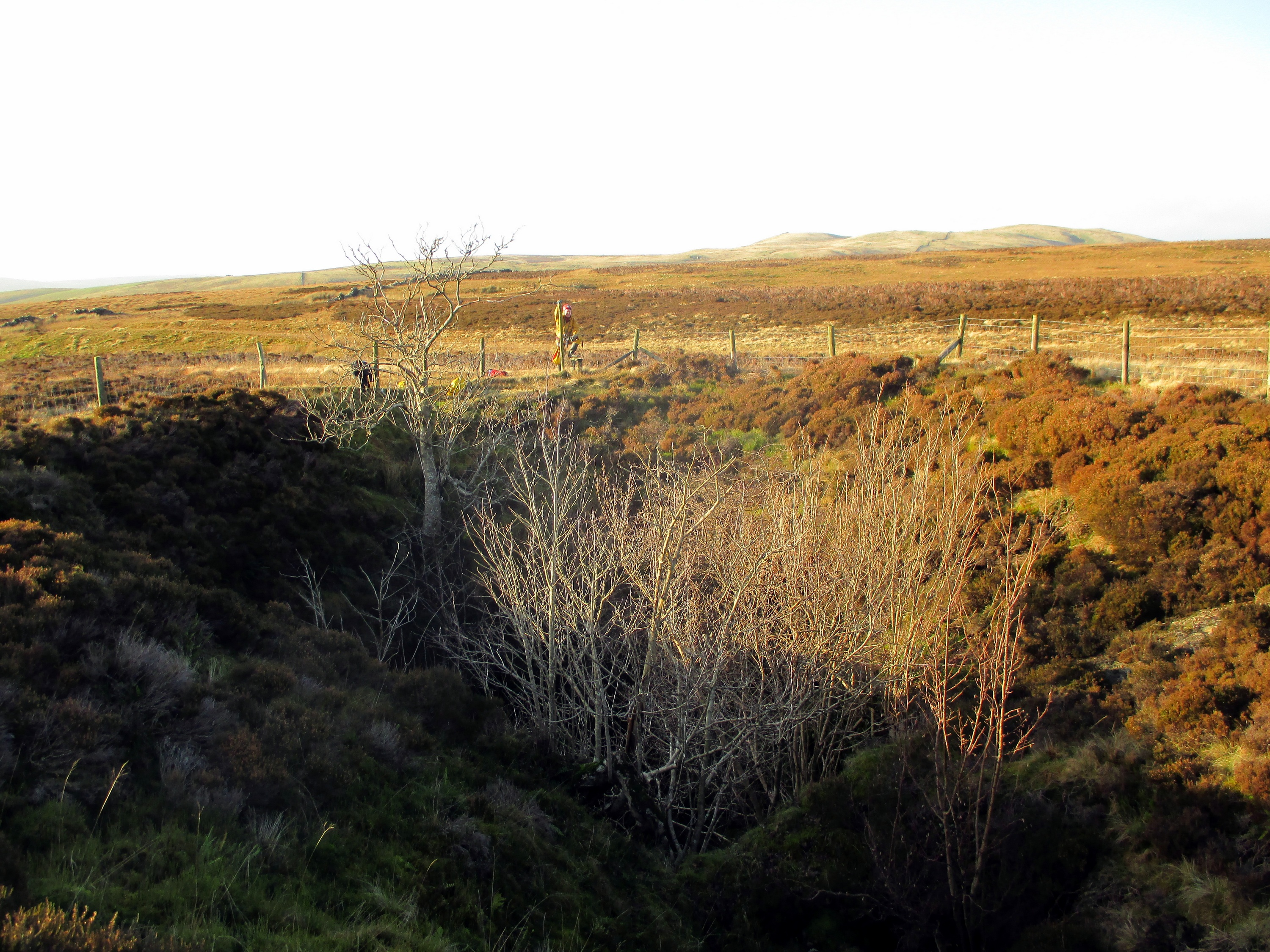 The entrance to Death's Head Hole, a 60 metre deep Karst shaft on Leck Fell, Lancashire, leading into Lost Johns' Cave.